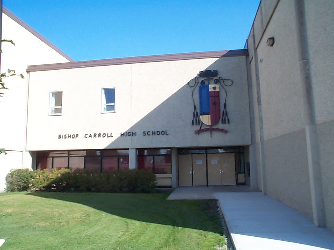 Bishop Carroll High School (Alberta) is a Separate Catholic located at 4624 Richard Road S.W., Calgary, Alberta, Canada